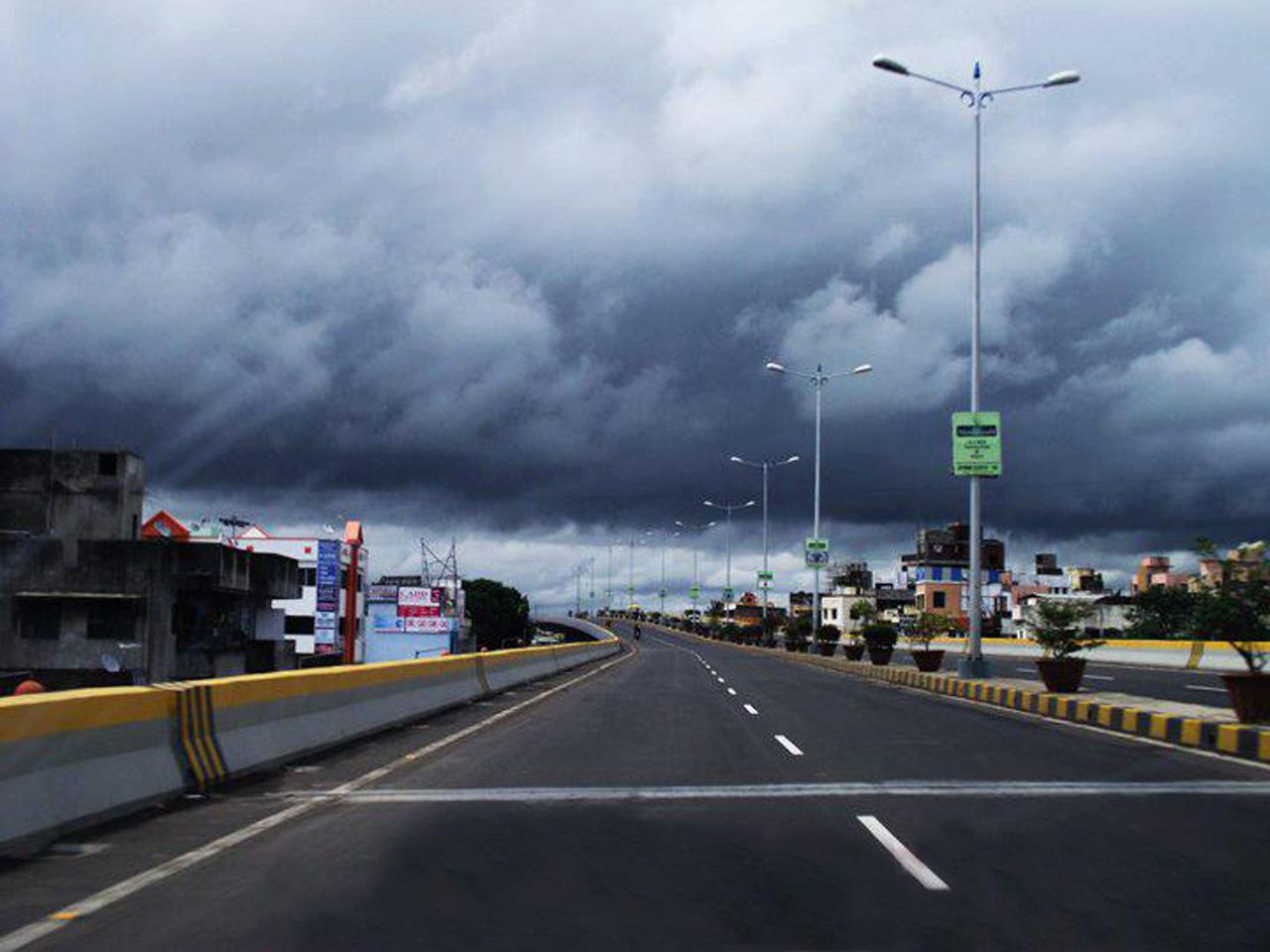 This photo taken by NSK in Nashik.